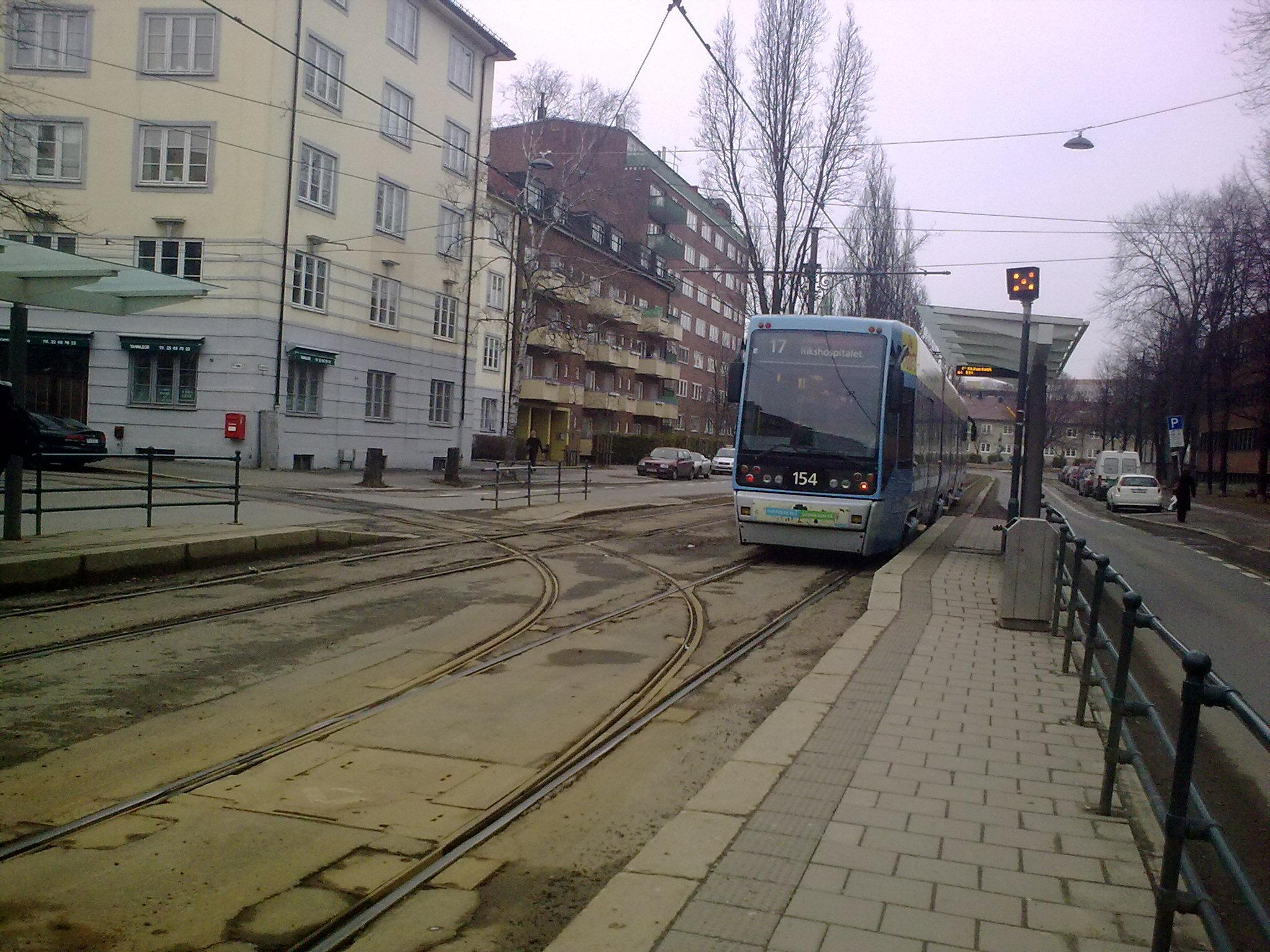 Tramway on line 17 on the Ullevål Hageby line leaving Adamstuen (station) for Rikshospitalet station.